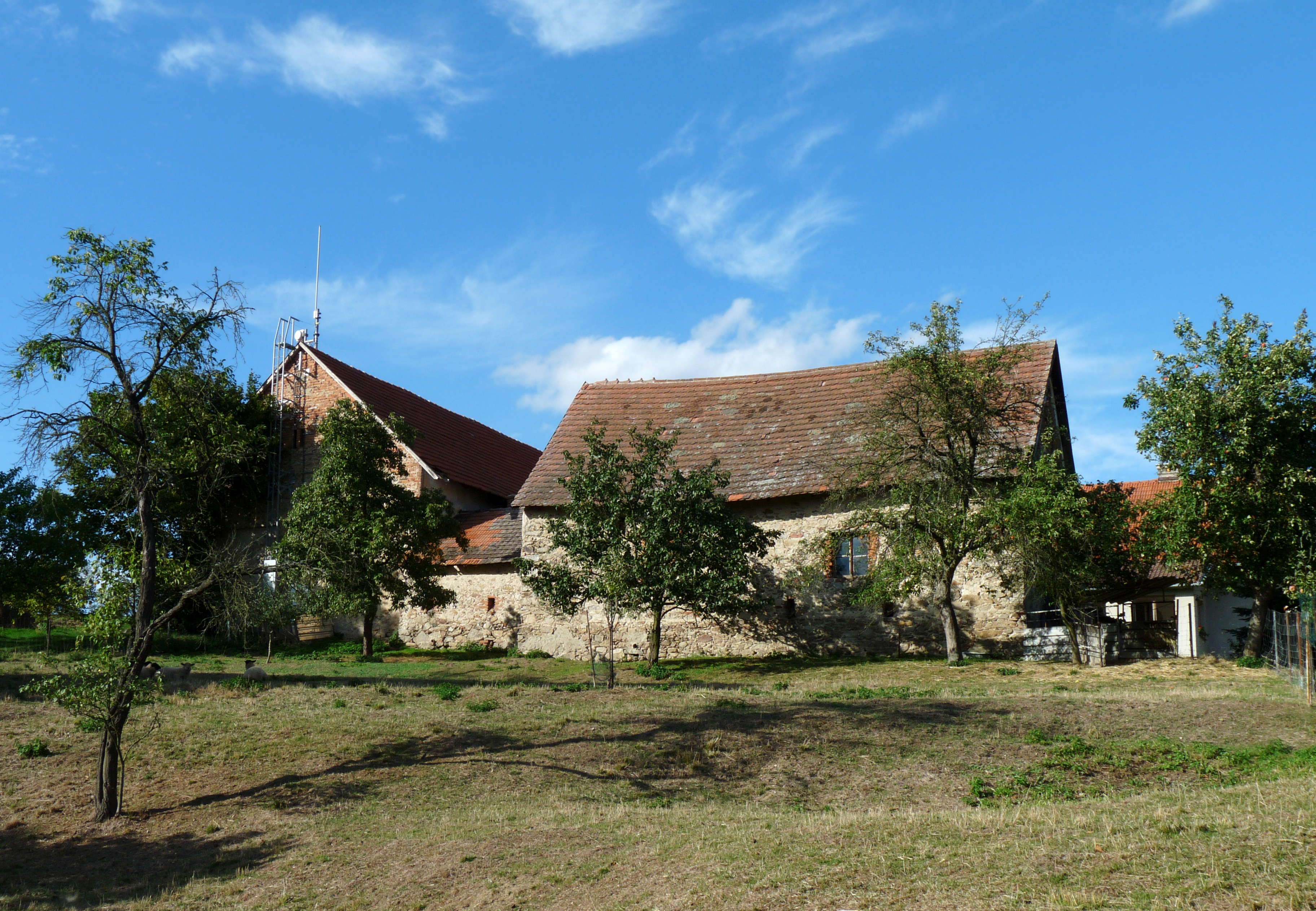 House No 5 in the village of Pazderná Lhota,Benešov District, Central Bohemian Region, Czech Republic.